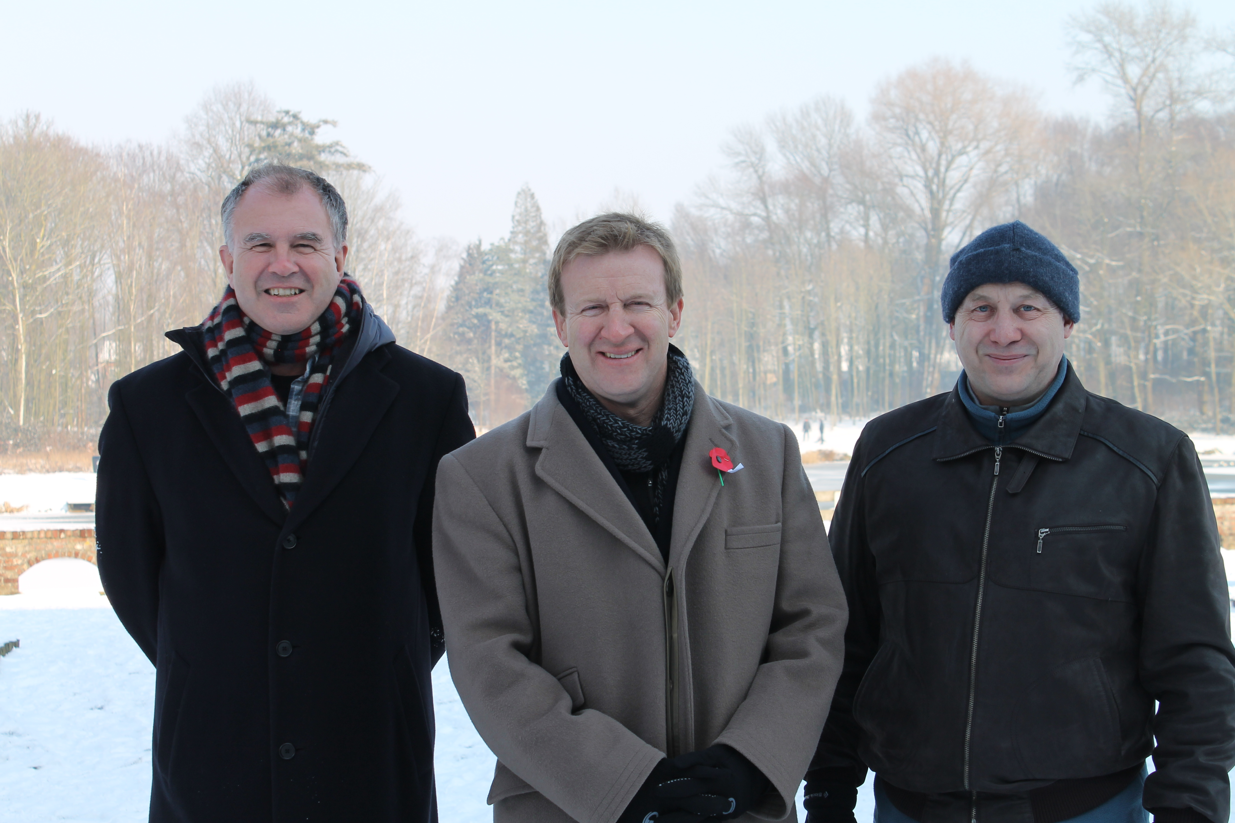 New Zealand defence force leaders outside Memorial Museum Passchendaele 1917, Belgium. Left - right : Secretary of Defence John McKinnon Minister of Defence Dr Jonathan Coleman Chief of Defence Force Lt General Rhys Jones